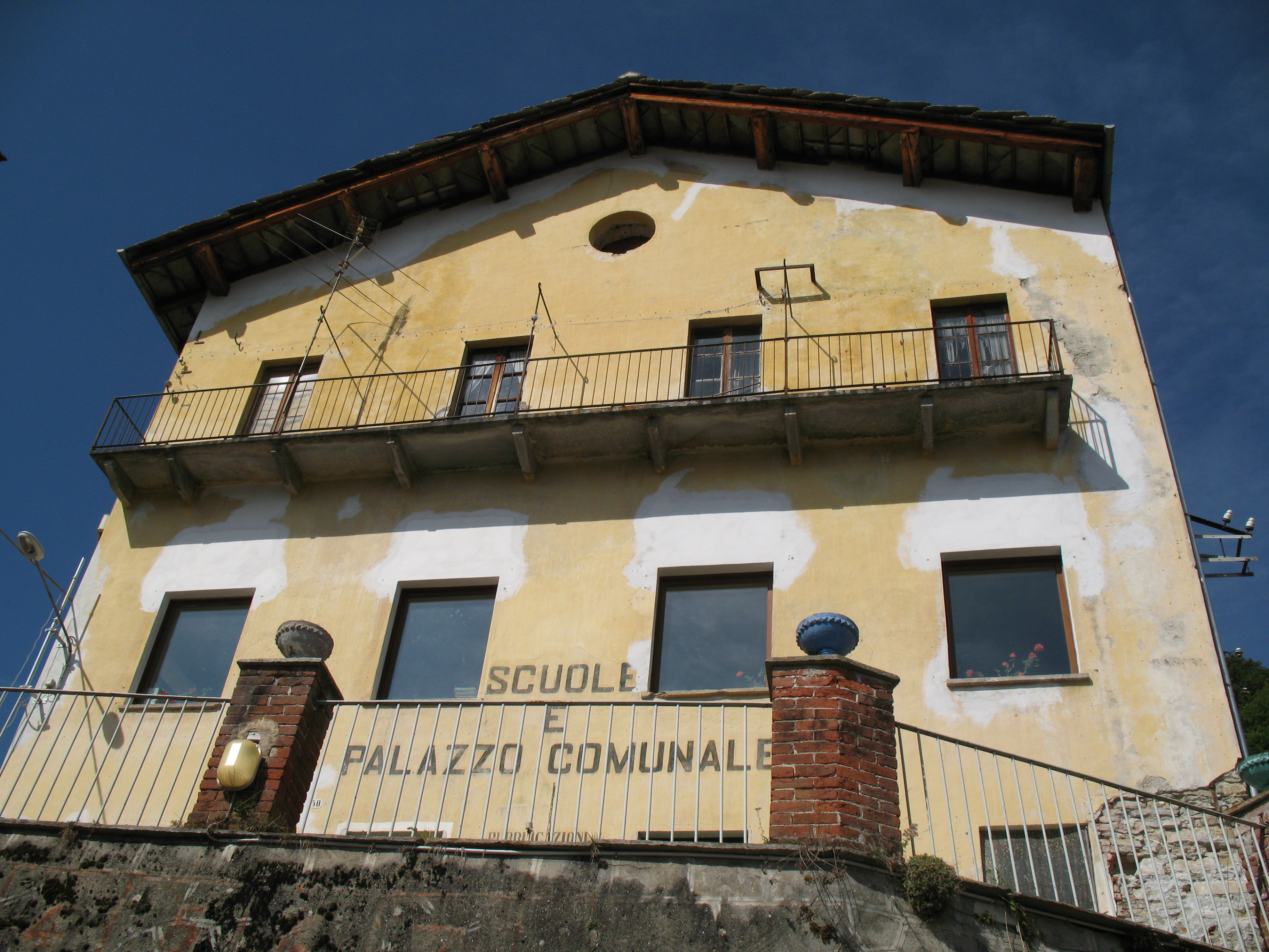 Town halls of Oncino